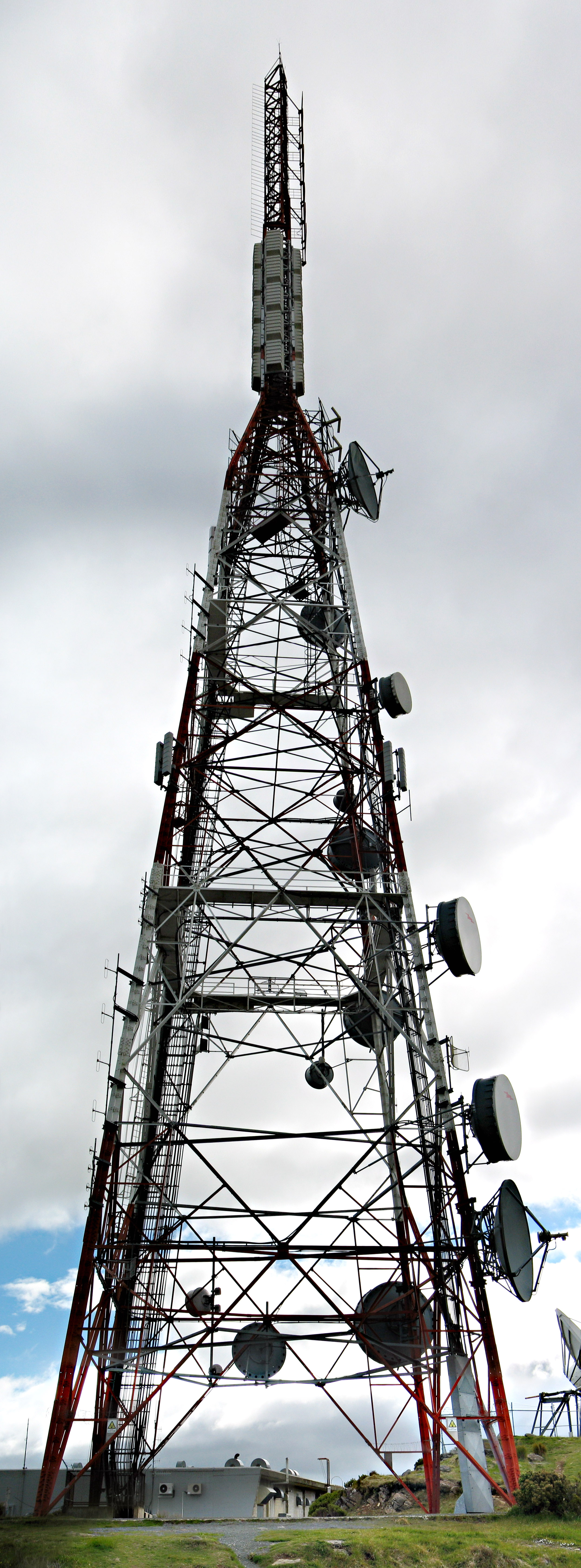 This is a panorama of the television mast just east of the summit of Mount Cargill near Dunedin, in New Zealand. It is roughly 110 m tall, and visible from most of Dunedin when not enveloped cloud (which is often).